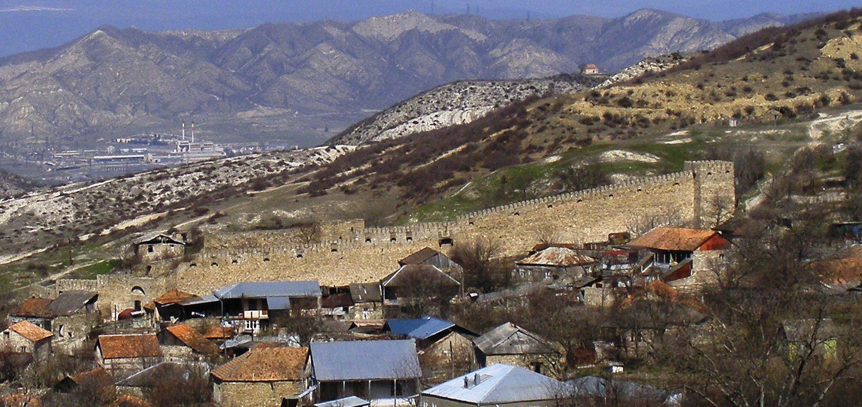 Ruins of Tsitsishvilis Castle in Kvemo Nichbisi